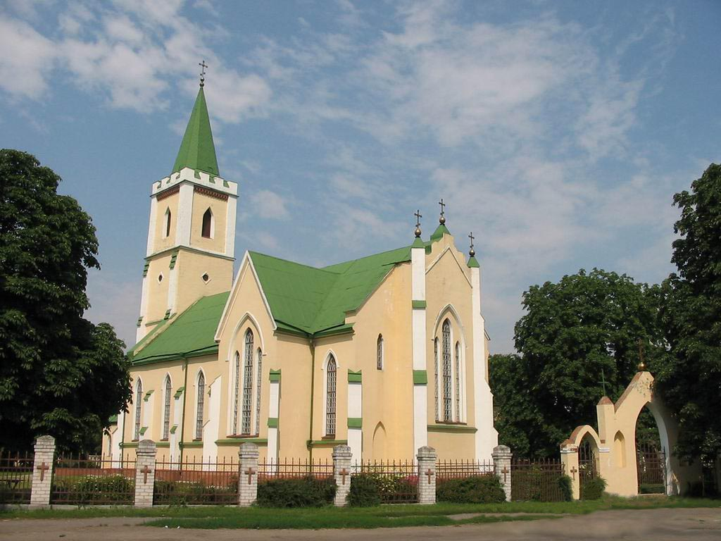 The Mykhailivska Church in Horodysche, Ukraine.